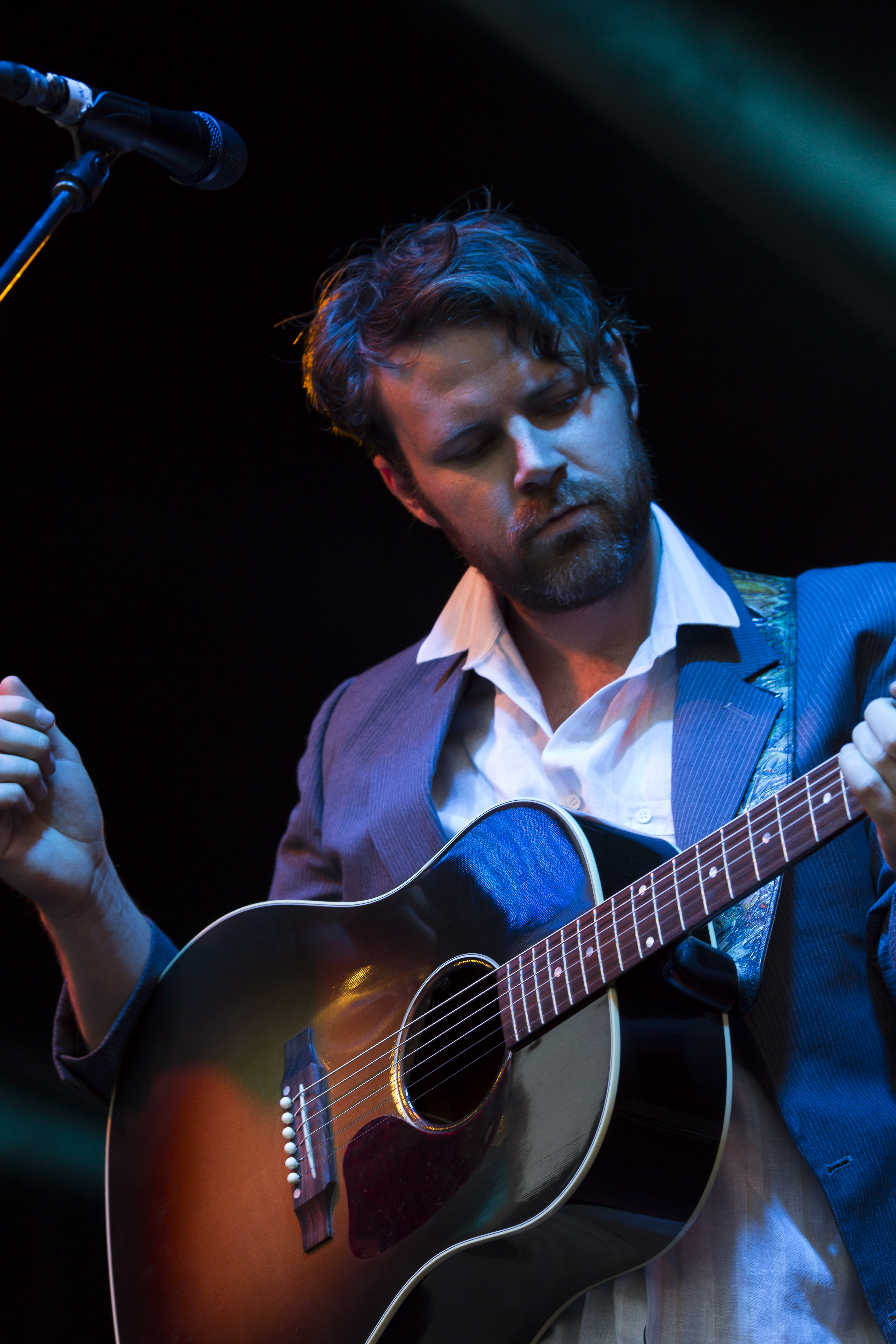 Spectrum Now - Jack Carty - 16th Jan 2015